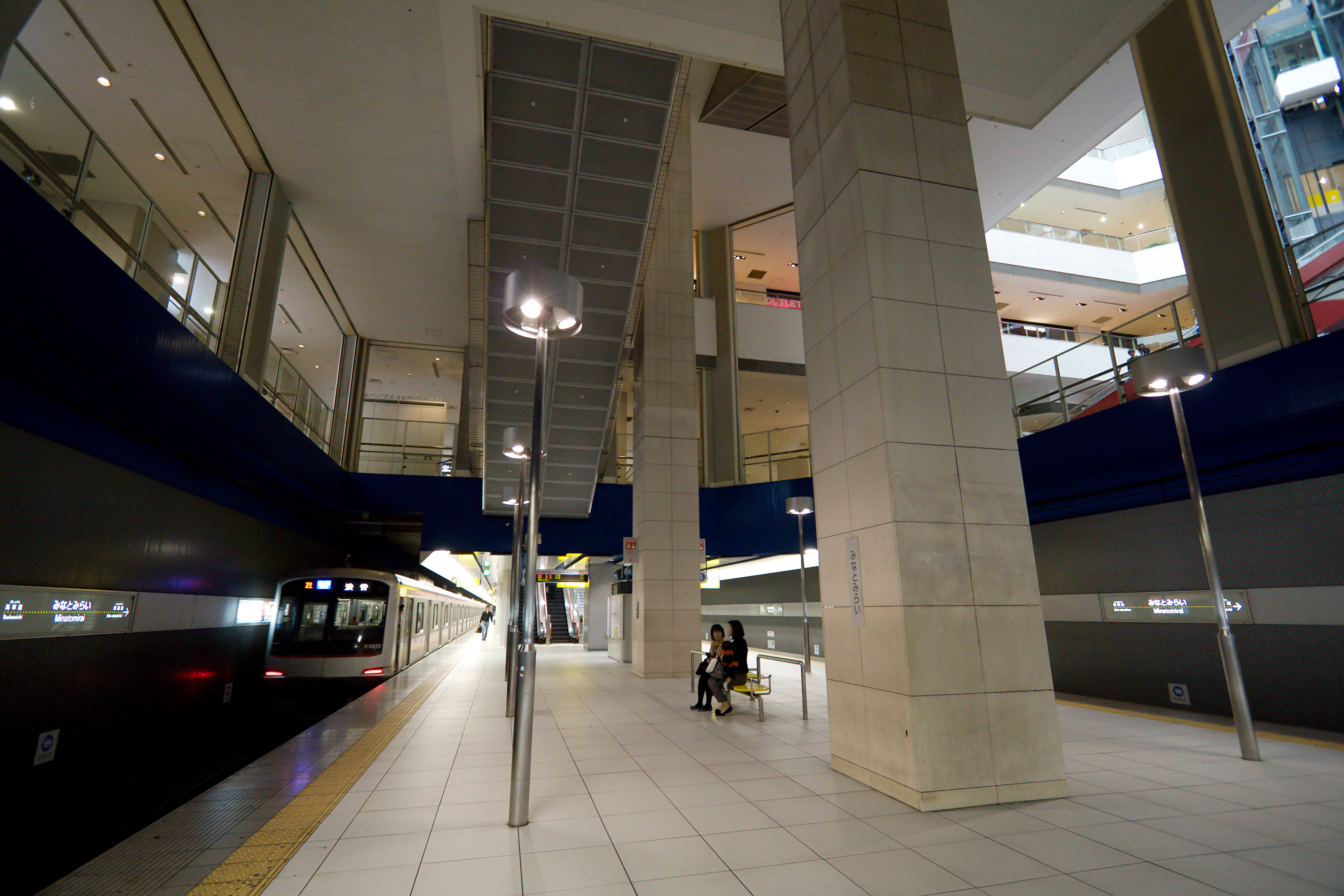 Minatomirai Station Platform